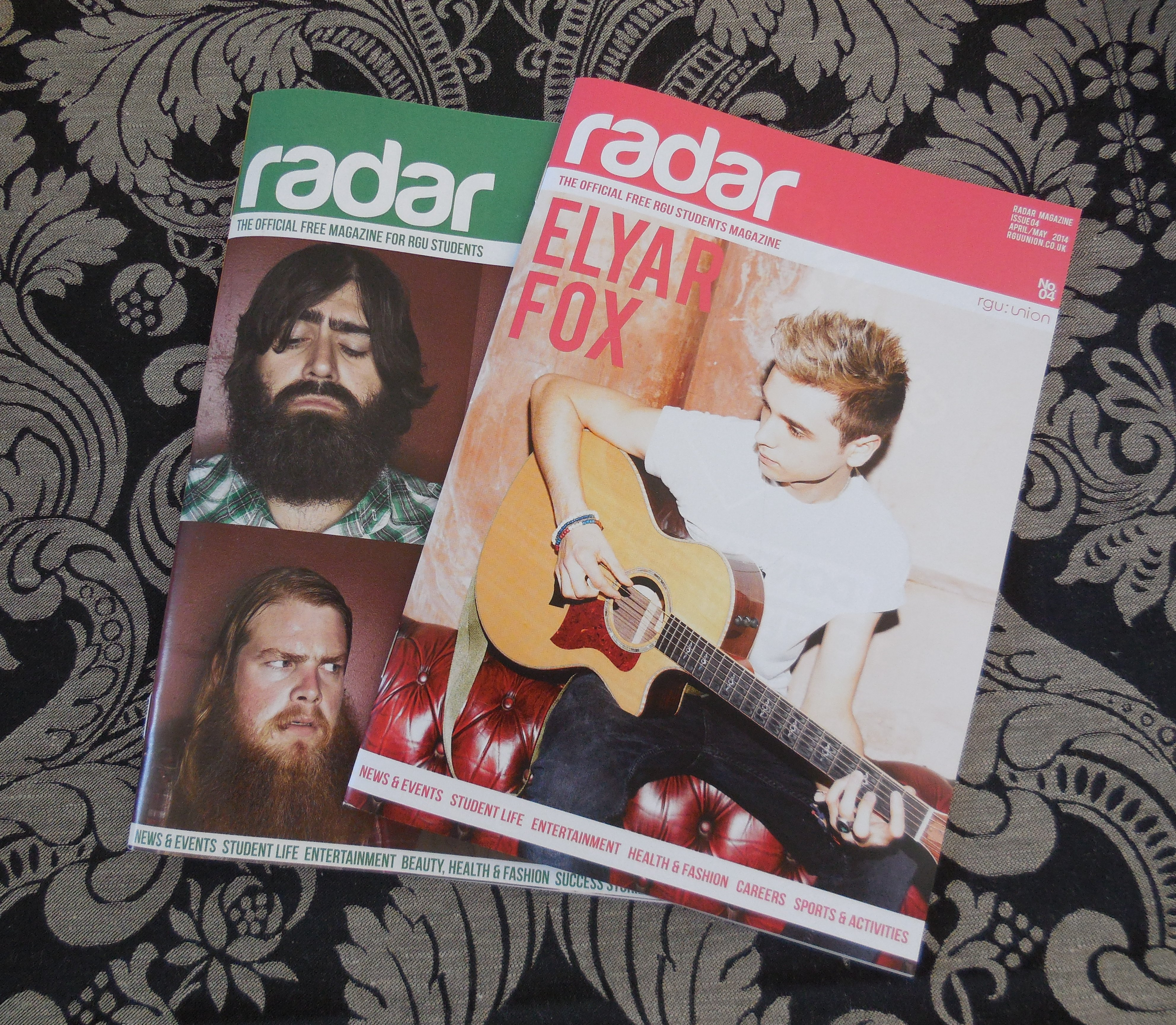 Copies of the Robert Gordon University's student magazine, "Radar". Shown are the February-March 2014 and April-May 2014 editions. The magazine is produced by the university's Student Union.